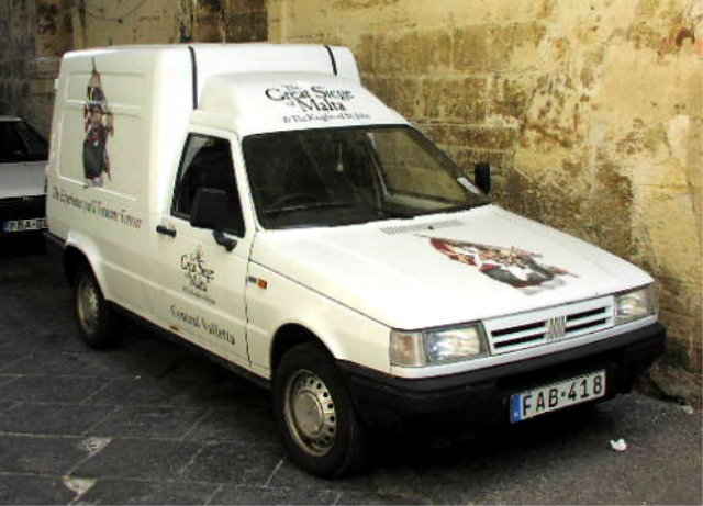 Fiat Fiorino of "Great Siege" Exhibition in Valletta, Malta